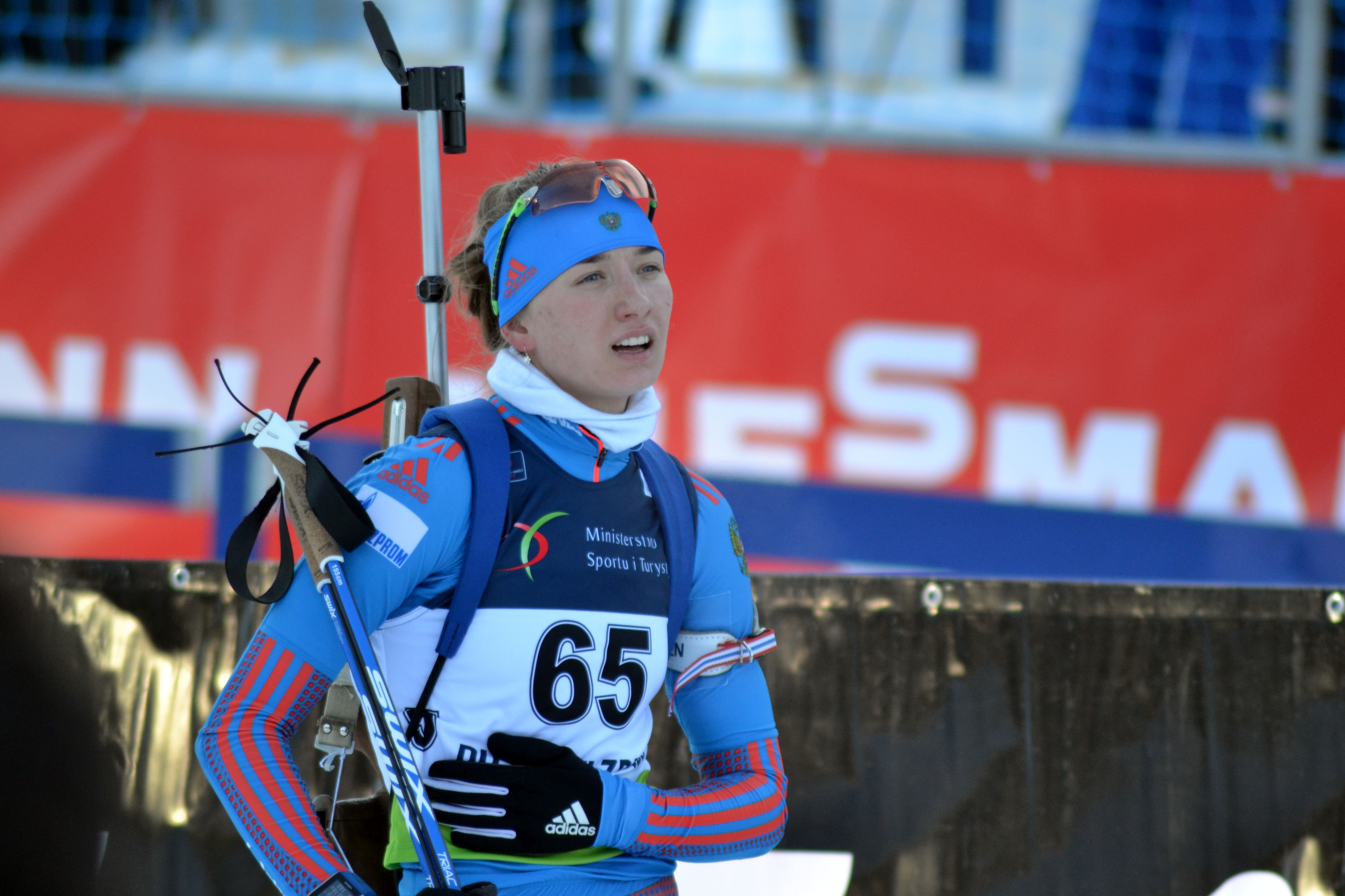 Open European Championships Biathlon 2017, Sprint Women's race, held on January 27th.